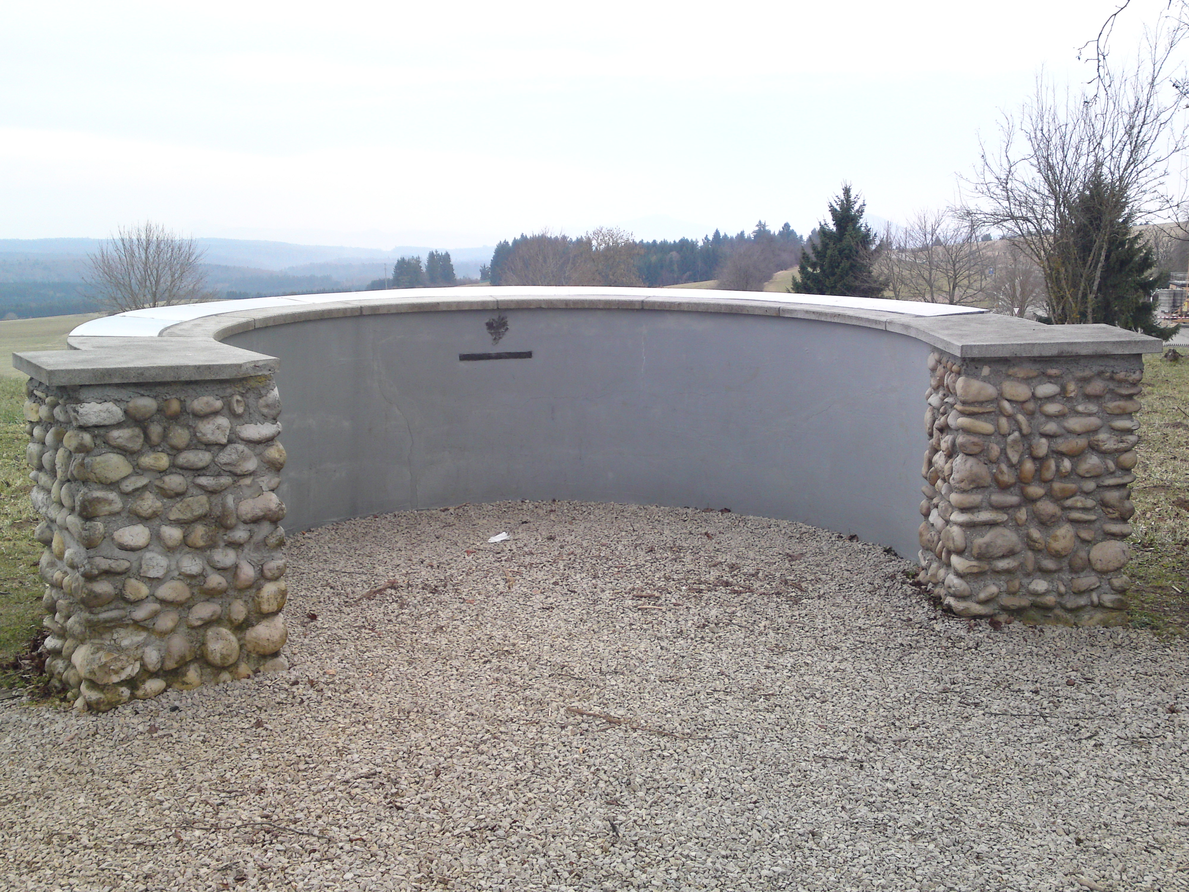 Viewing platform on the Witthoh.